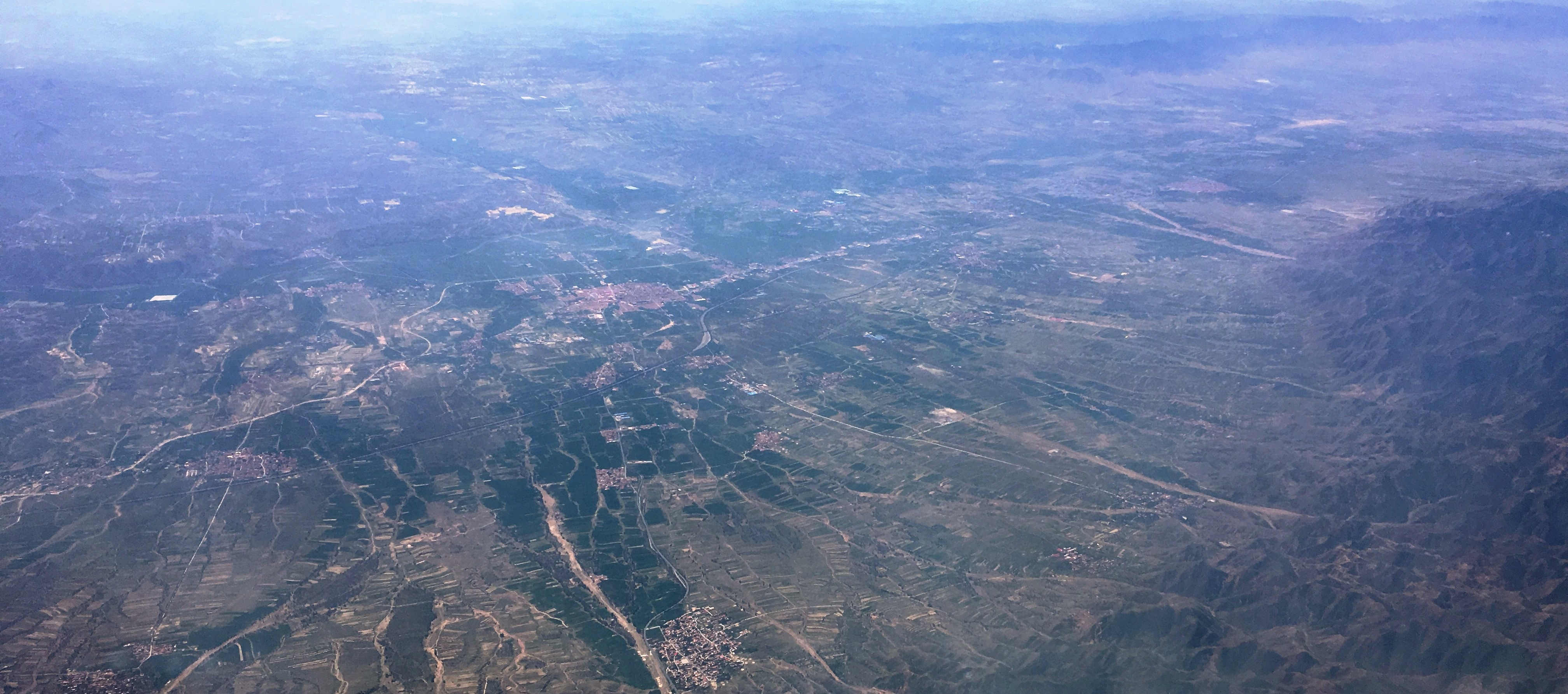 Valley of the Sanggan River, seen from the east towards west. The settlement in the front is Nankocun, the town in the background is Huashaoyingzhen, both in Yangyuan county (northwestern Hebei province).